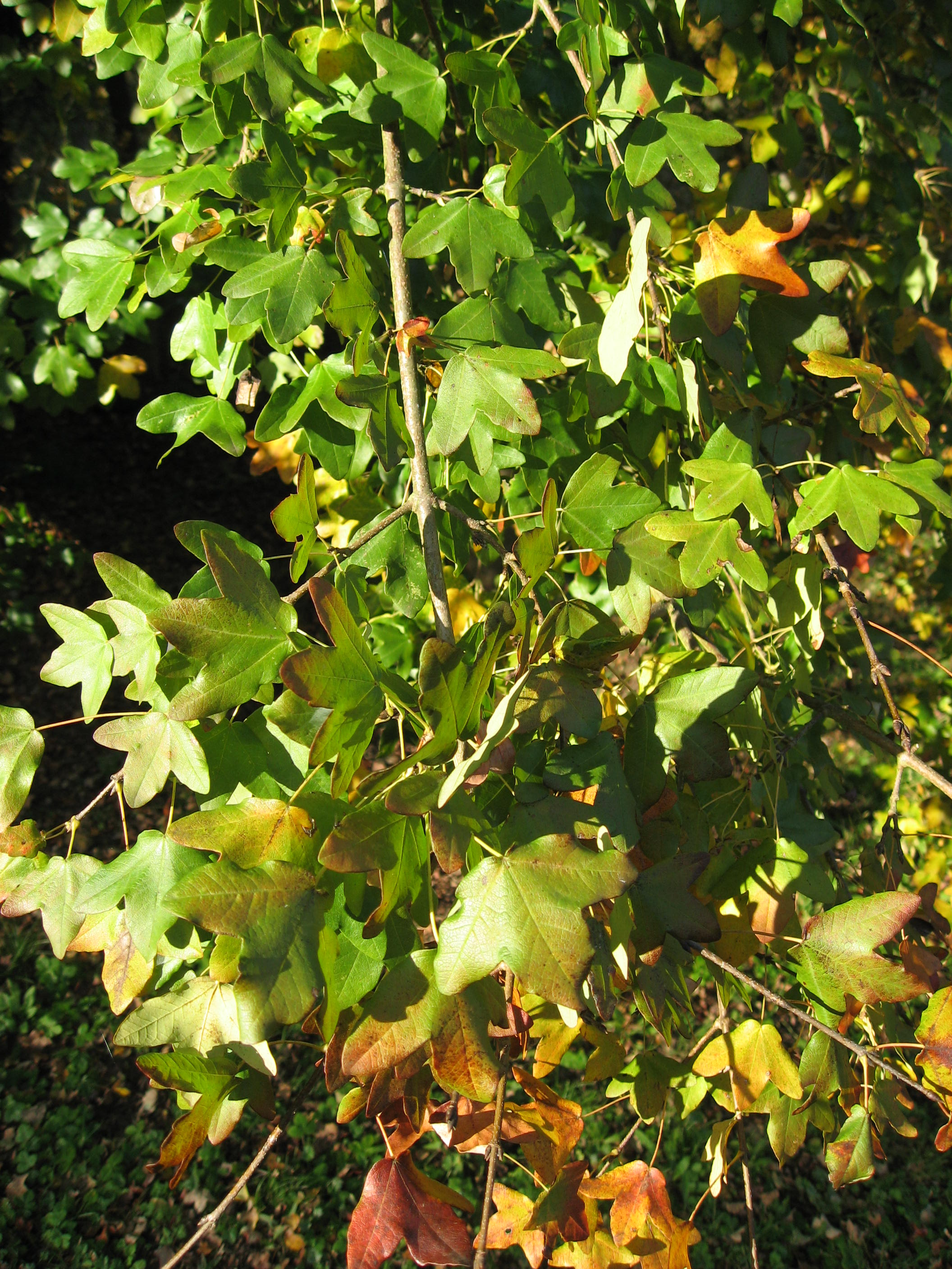 Acer monspessulanum in Arboretum de La Roche-Guyon Map: 49° 5' 56" N 1° 38' 23" E